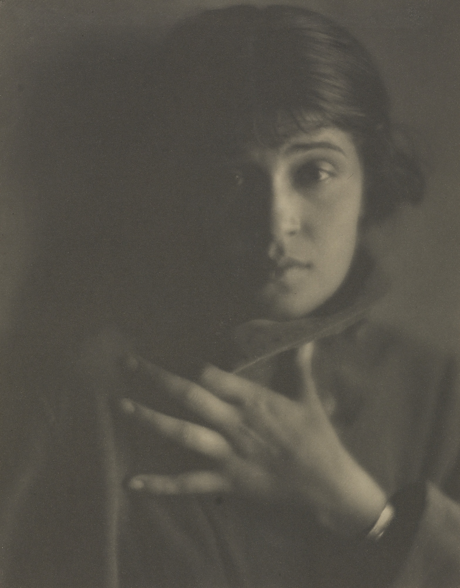 Tina Modotti, Glendale. Photograph by Edward Weston, 1921